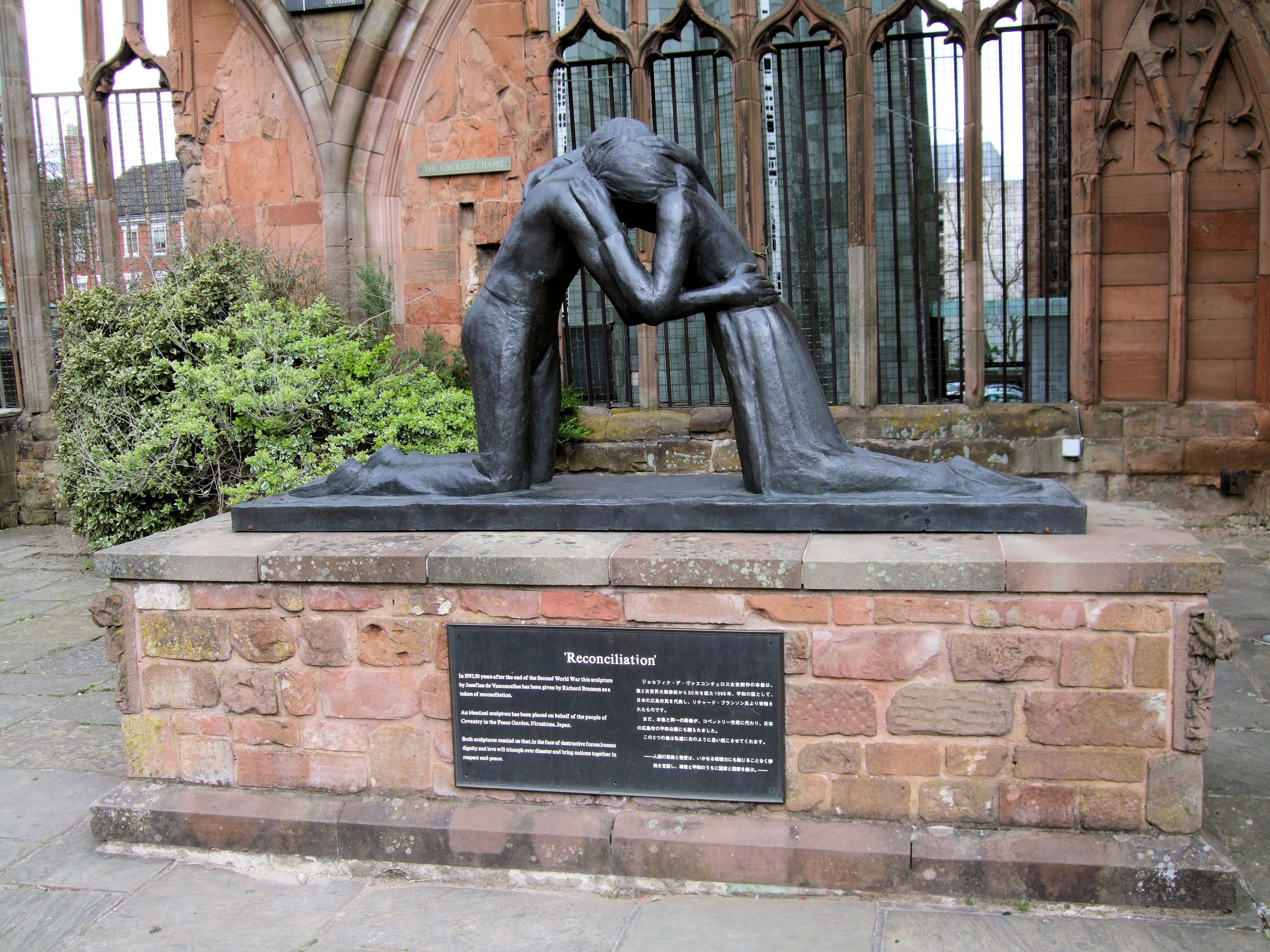 Reconciliation (originally named Reunion) is a sculpture by Josefina de Vasconcellos. Originally created in 1977 and entitled Reunion, it depicted a man and woman embracing each other across barbed wire.